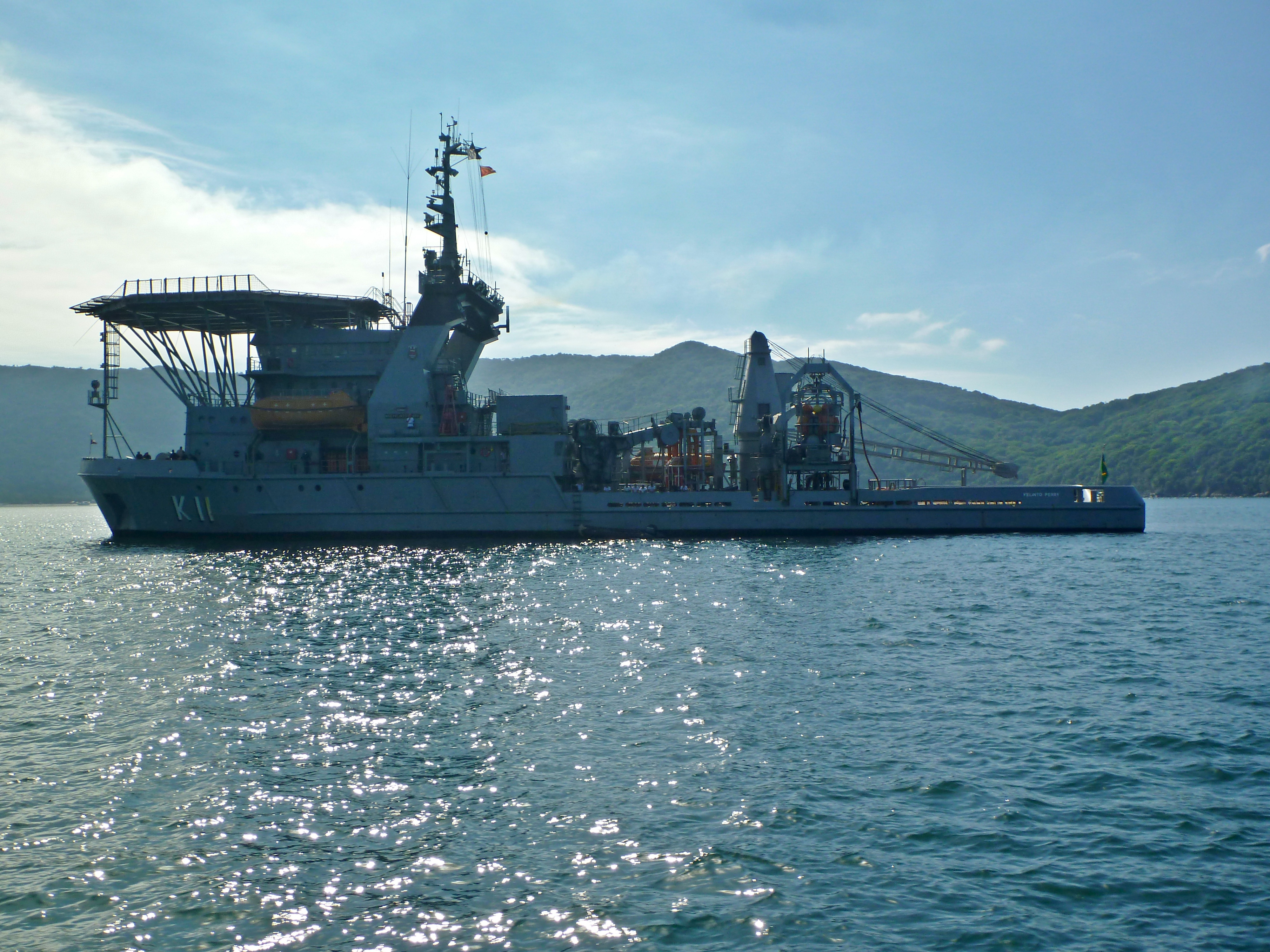 NSS Felinto Perry (K-11), a submarine rescue ship of the Brazilian Navy, at the coast off Arraial do Carbo